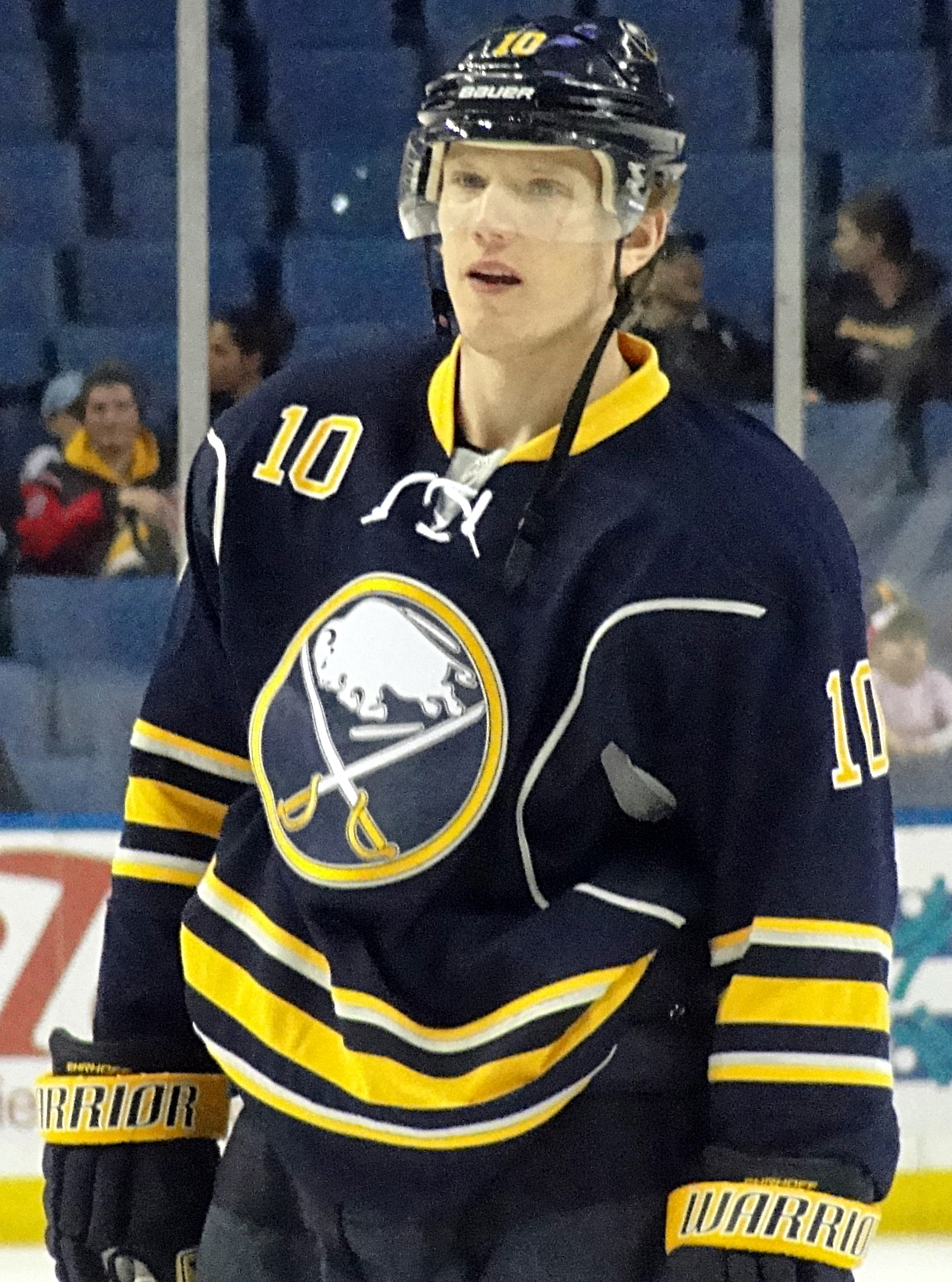 Buffalo Sabres defenseman Christian Ehrhoff warms up for a February 19, 2012 game against the Pittsburgh Penguins at First Niagara Center in Buffalo, NY.